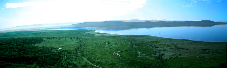 Panorama of Baboon Cliff in Lake Nakuru Nat. Park